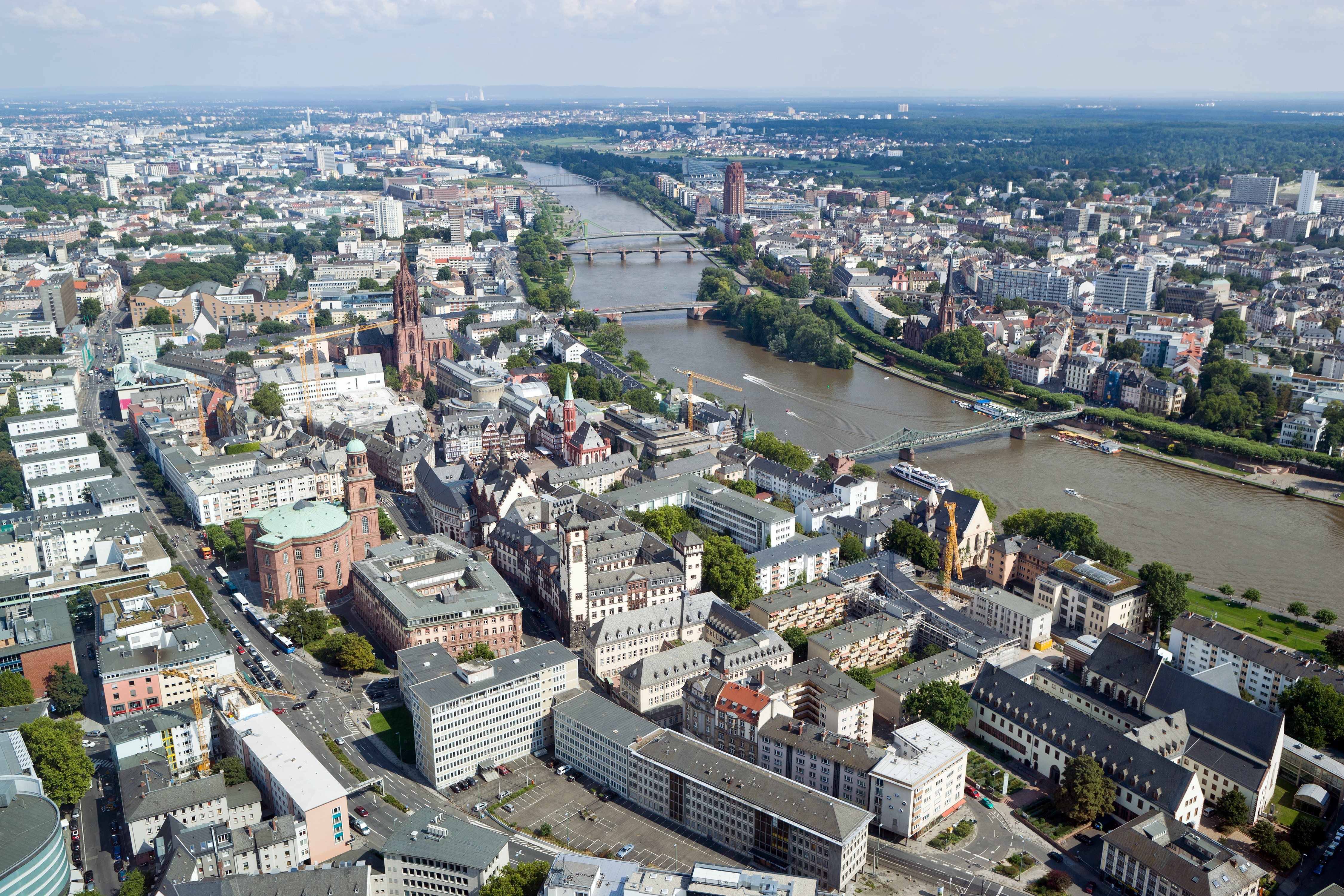 Frankfurt on the Main: Altstadt (Old Town) from the Main up to the Berliner Straße (Berlin Street) respectively the Battonnstraße (Battonn Street), in the foreground the Karmeliterkloster (Carmelite Abbey) respectively the former Bundesrechnungshof (Federal Court of Auditors), beyond the river Sachsenhausen, in the background Fischerfeldviertel (Fisher Field Quarter), Ostend (Eastend) and Oberrad as seen from Commerzbank Tower